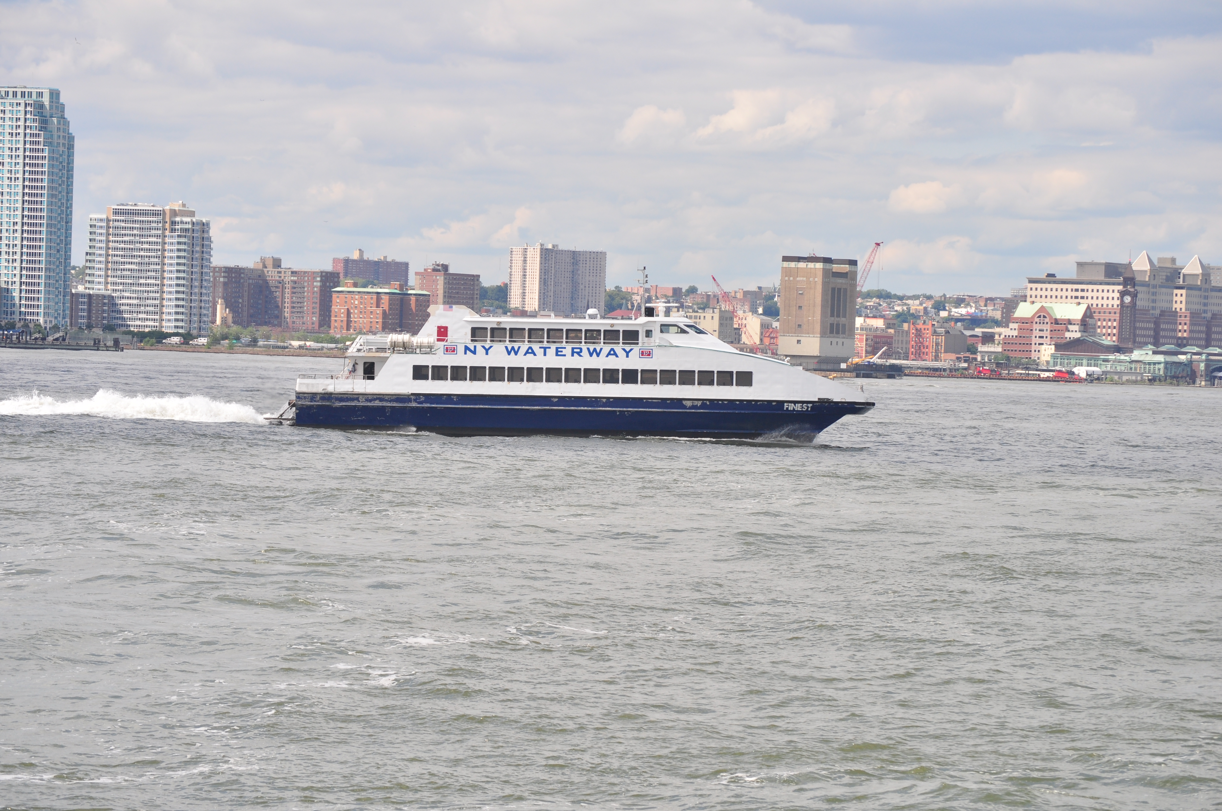 NY Waterway ship Finest on the Hudson River near the Holland Tunnel seen from New York Water Taxi. New Jersey in background.